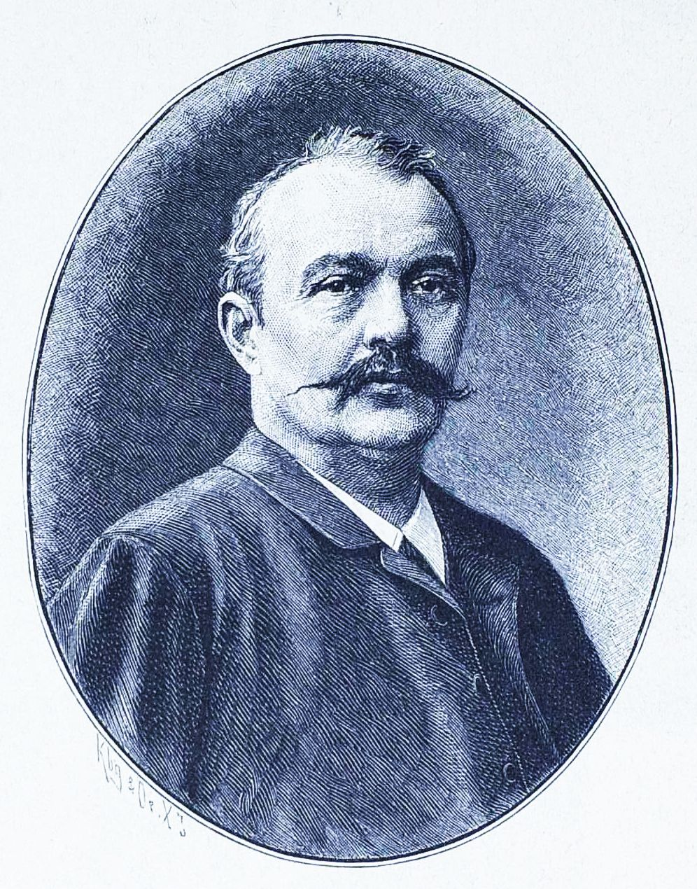 no caption